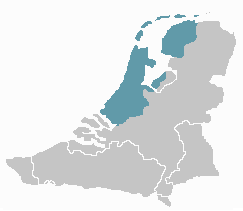 Map of the distribution of the dialect Hollandic in the Low countries.